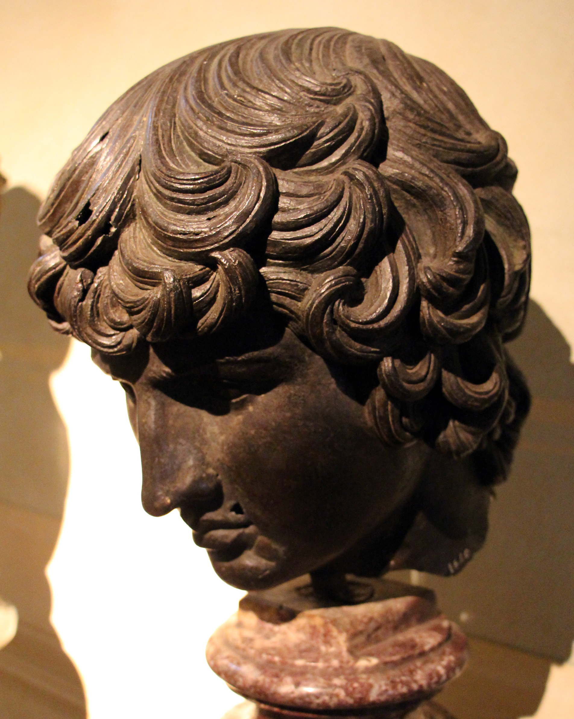 Collections of the Museo archeologico nazionale (Florence)